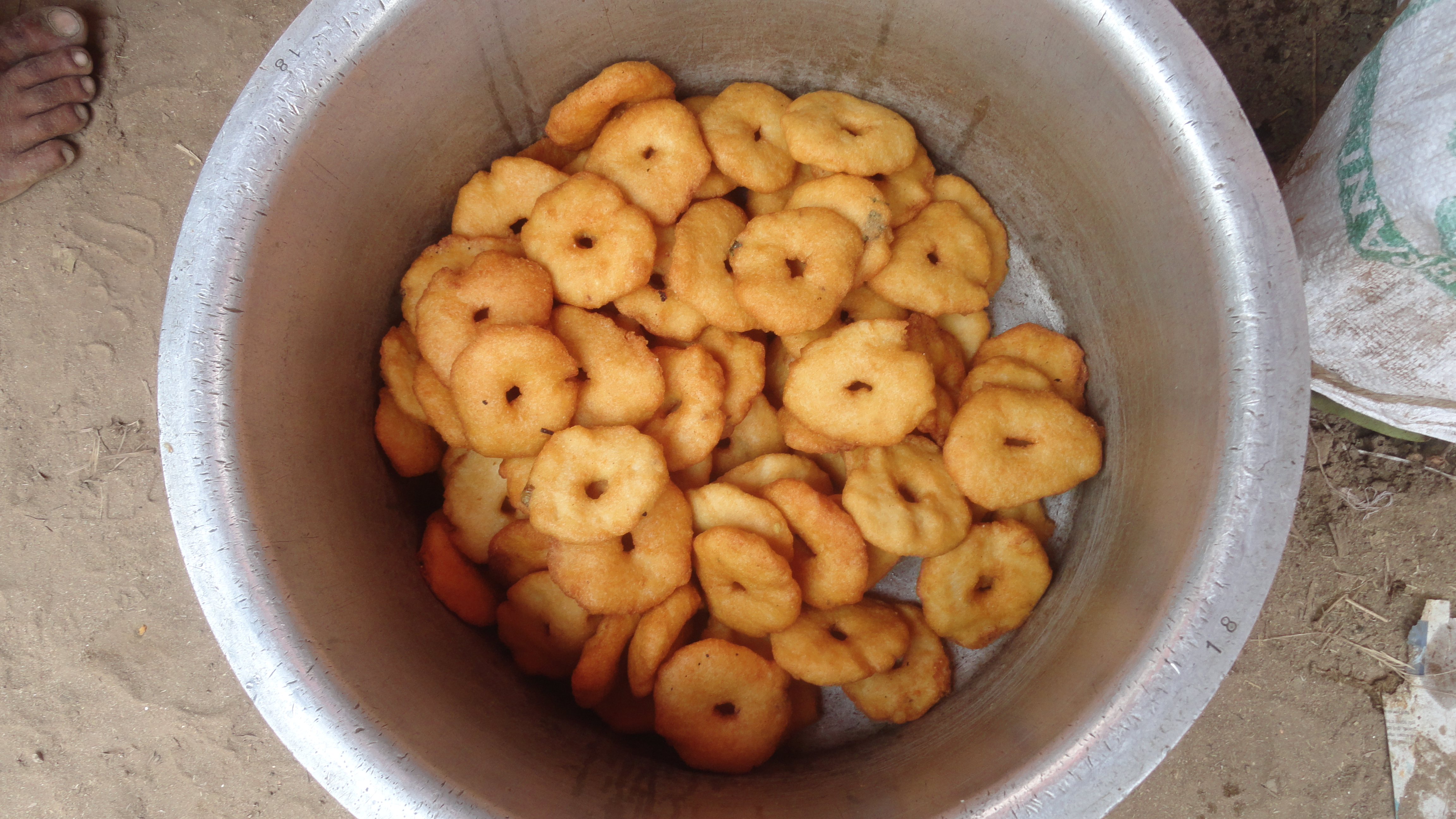 vada a Tiffin dish of south india